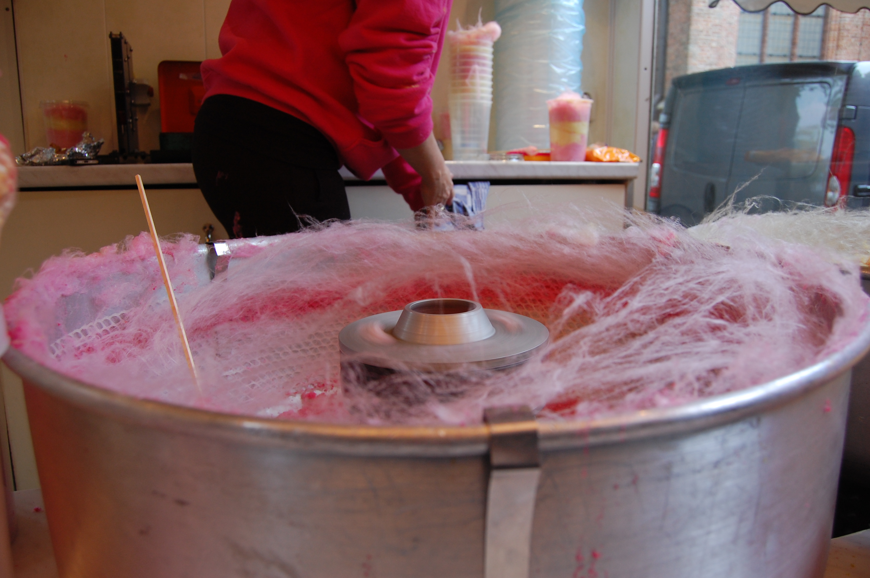 Making cotton candy on yearly market in Woerden